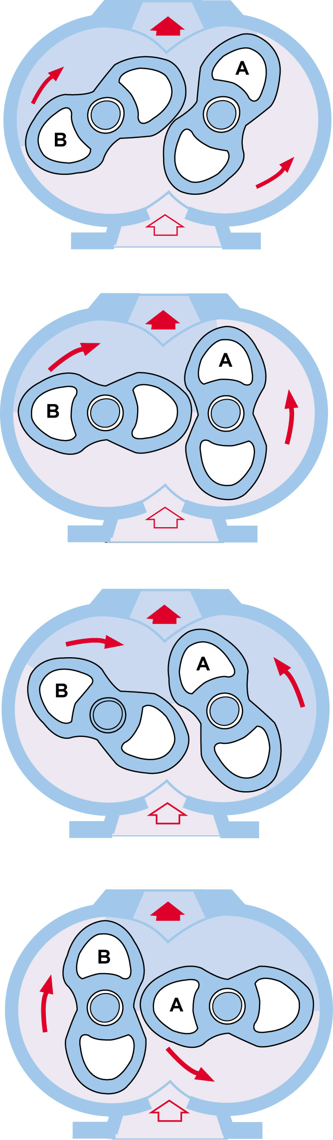 Roots Blower operating principle